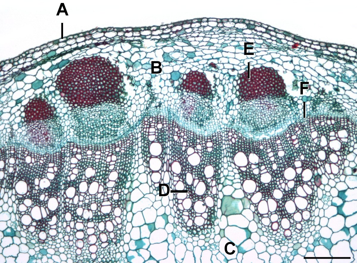 Photomicrograph of a Helianthus stem. A-Epidermis, B-Cortex, C-Pith, D-Xylem, E-Phloem fibers, F-Vascular cambium. Scale=0.2mm.